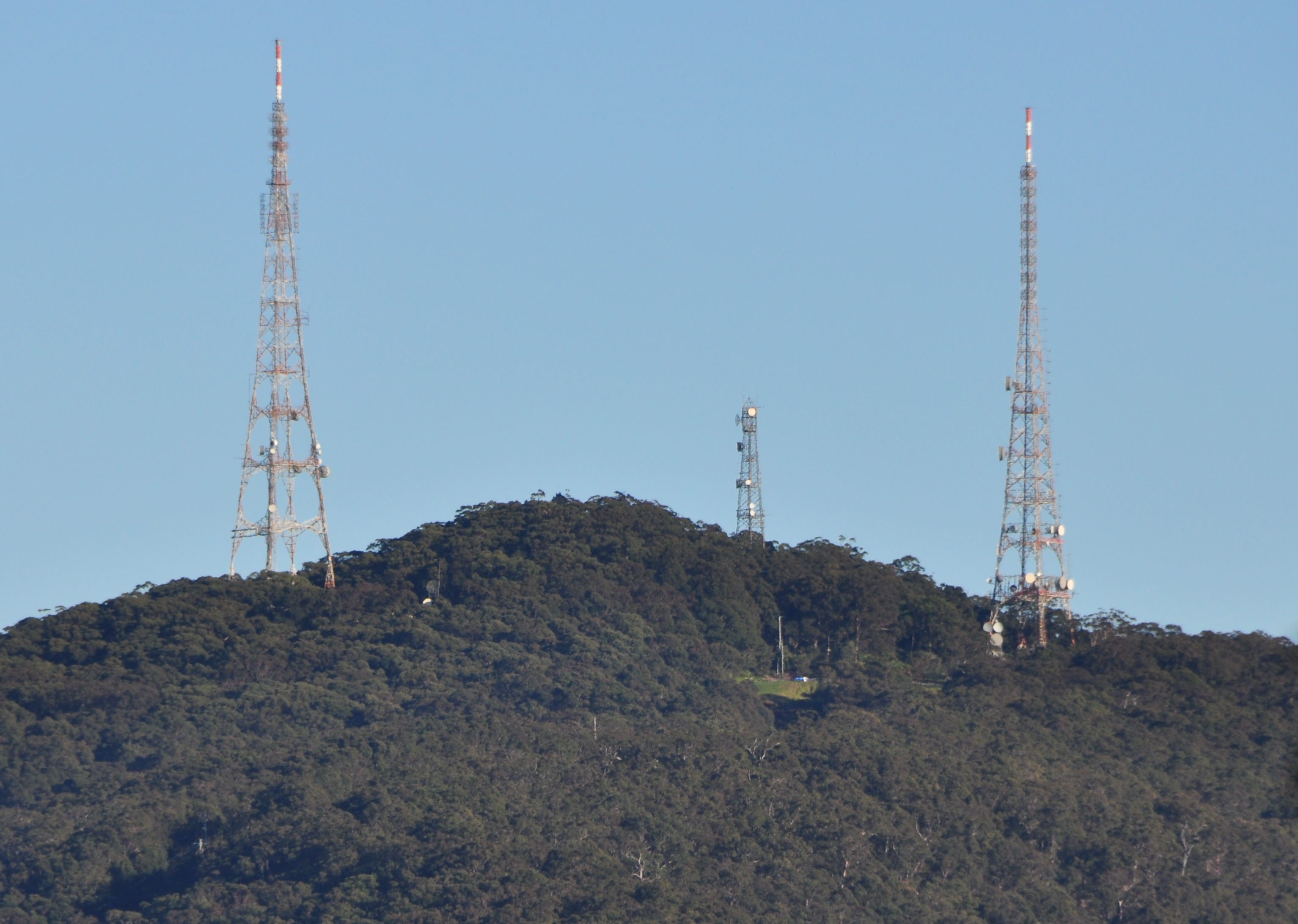 Mount Sugarloaf viewed from George Booth Dr., West Wallsend, NSW Australia.